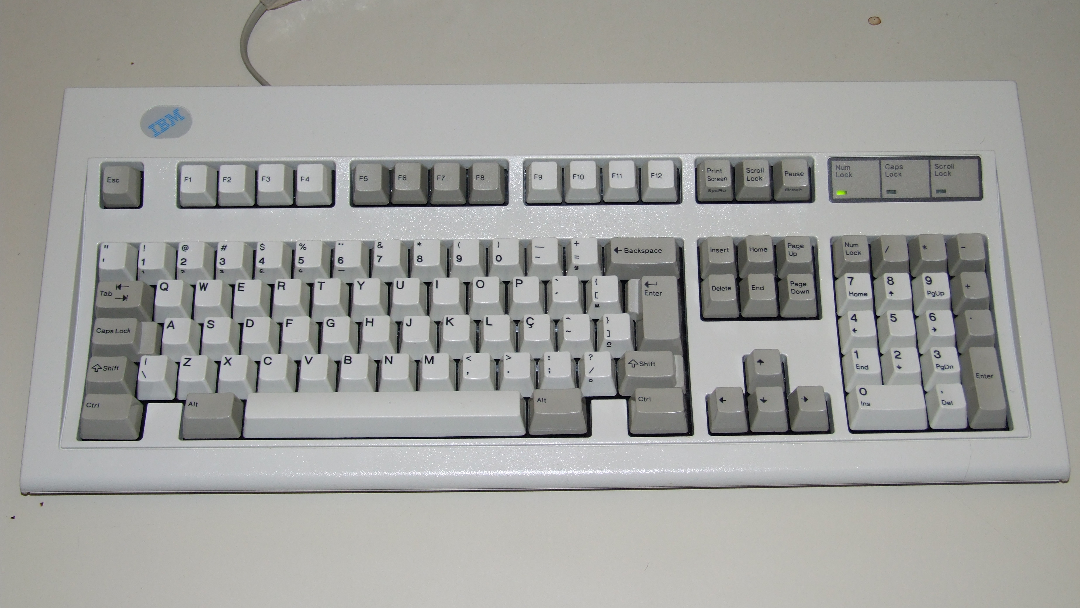 Photo shows the Brazilian 104-key ABNT2 keyboard layout